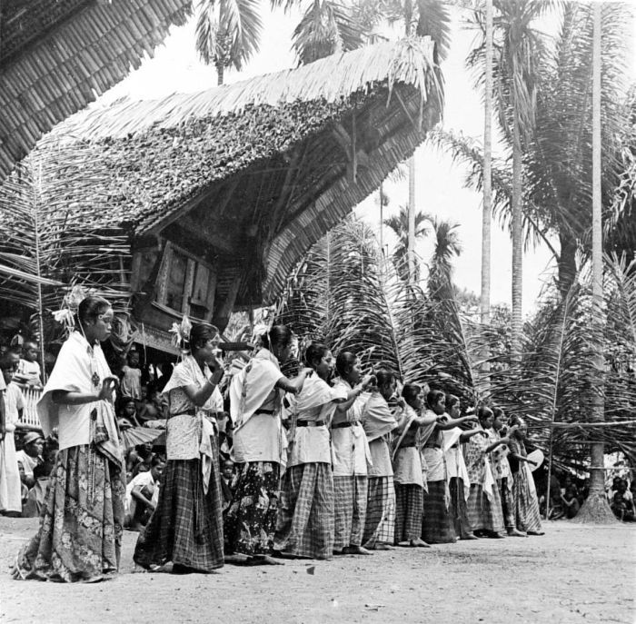 Dancers performing at a feast of the dead, Sulawesi